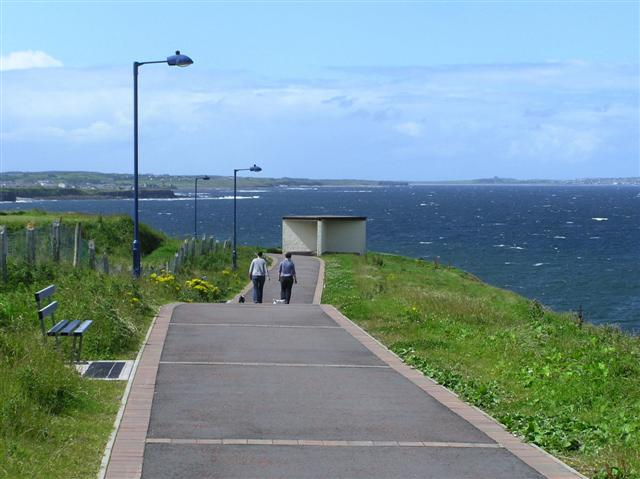 Rougey Cliff Walk, Bundoran Heading round the coast